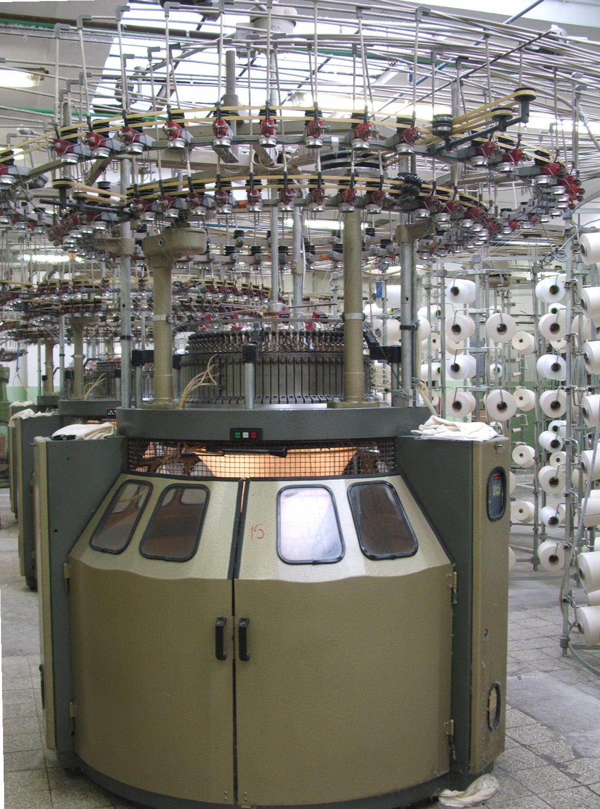 Circular knitting machine